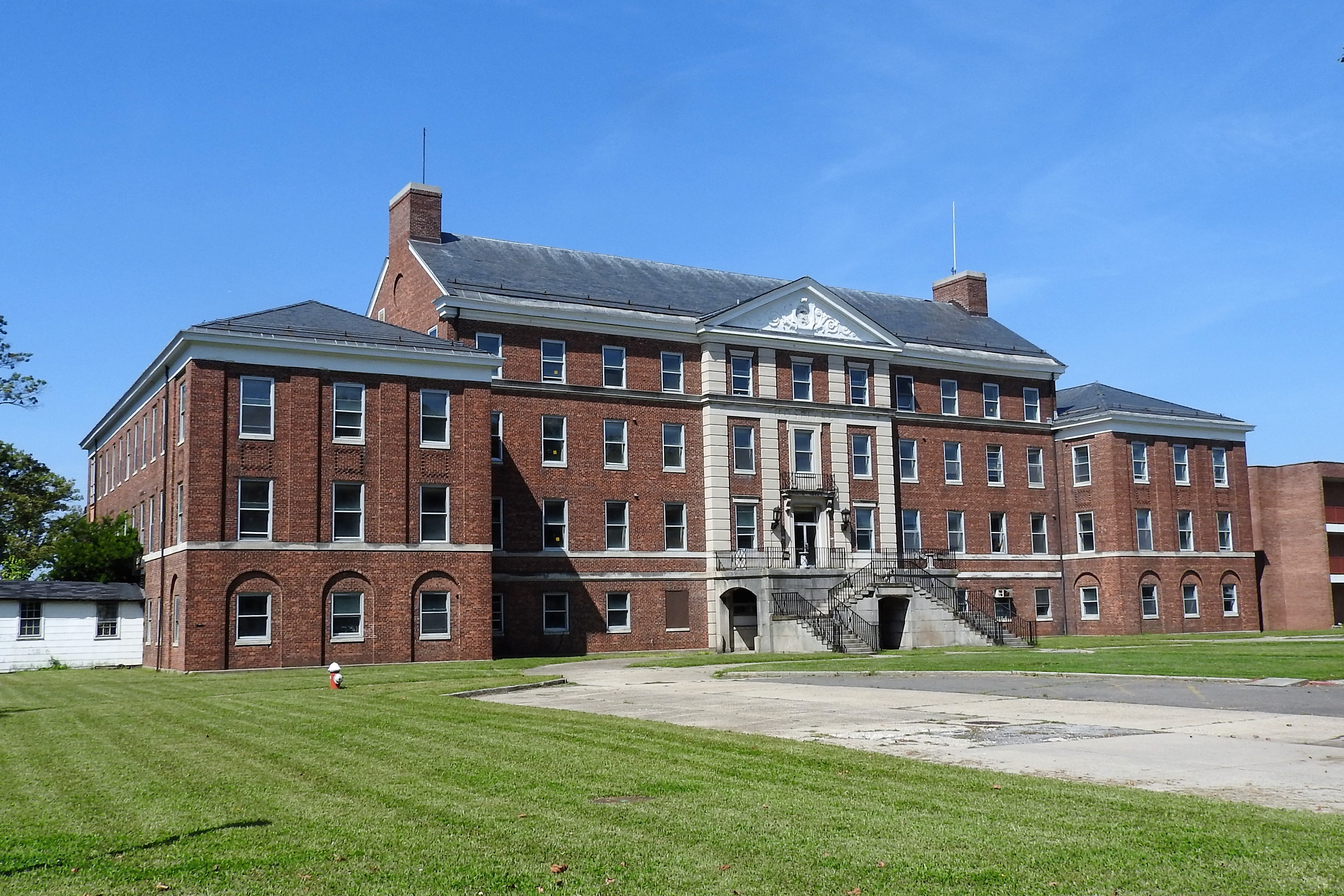 Looking northwest at hospital